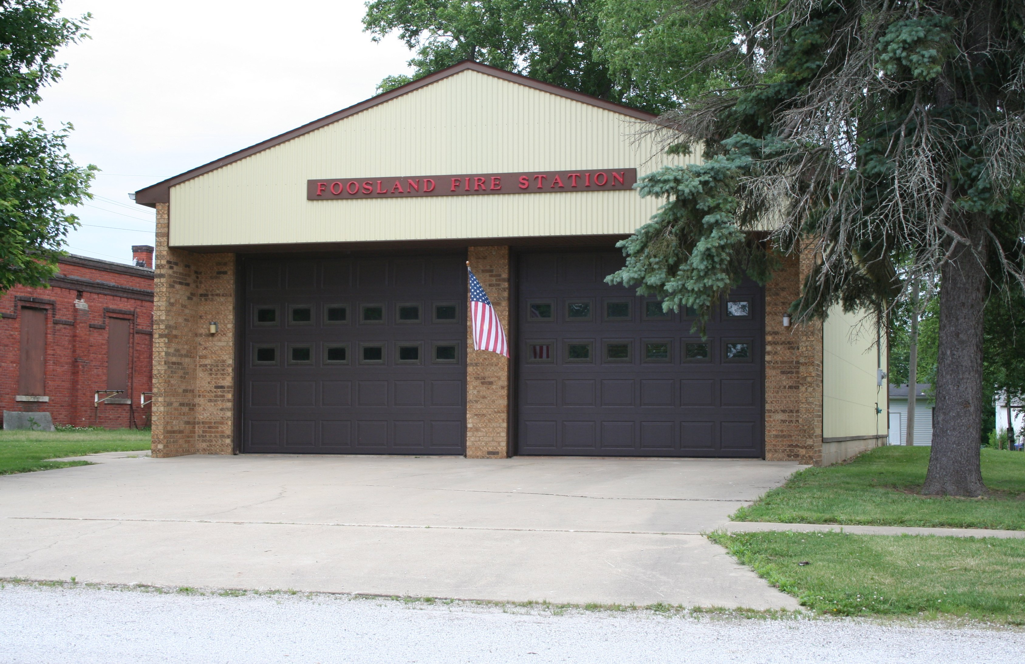 Sangamon Valley Fire Protection District Station located in Foosland, Illinois. Volunteer Fire Department.